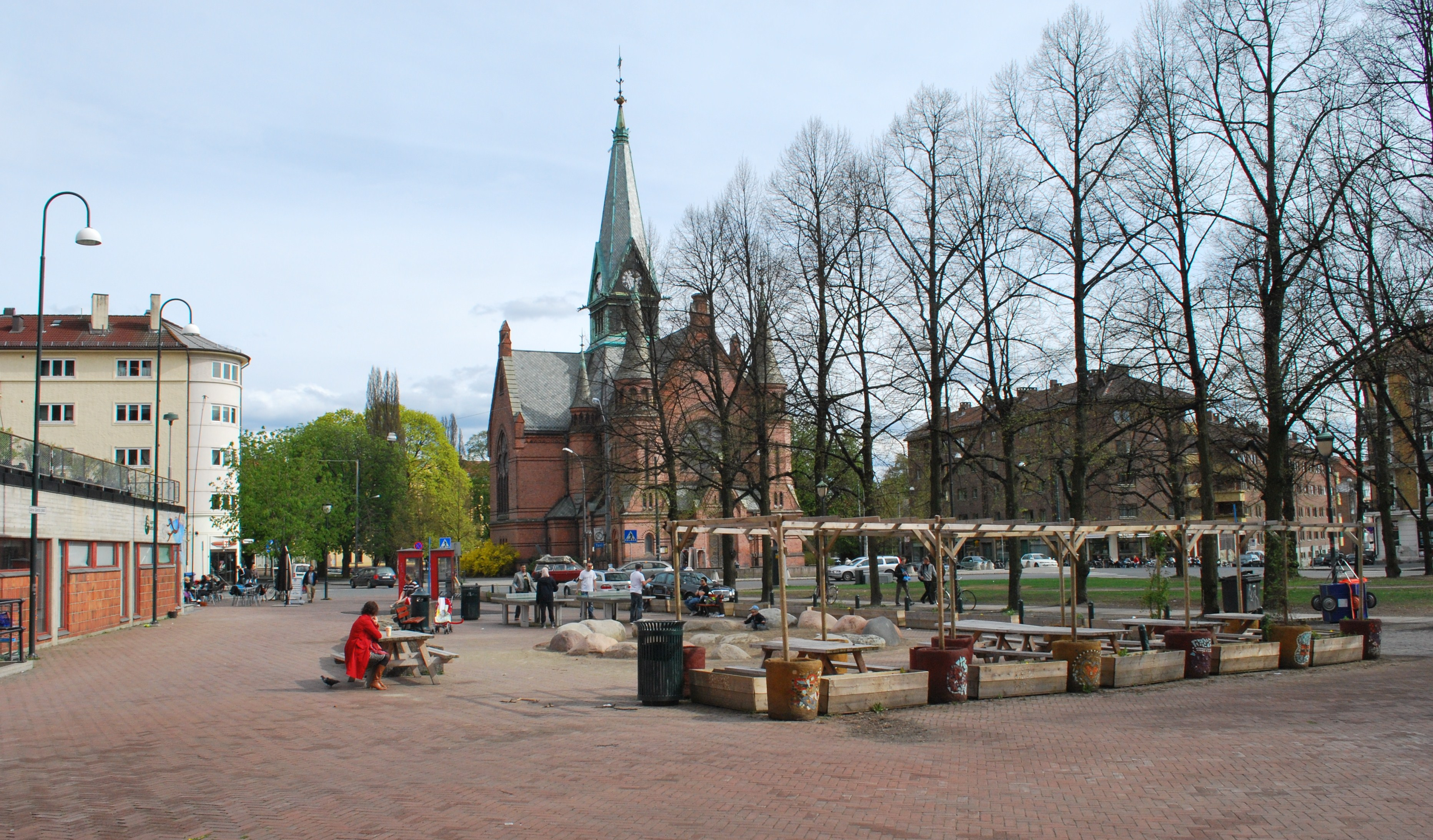 Arne Gjestis plass (square), Sagene neighbourhood, Oslo. Sagene kirke (church) in the background